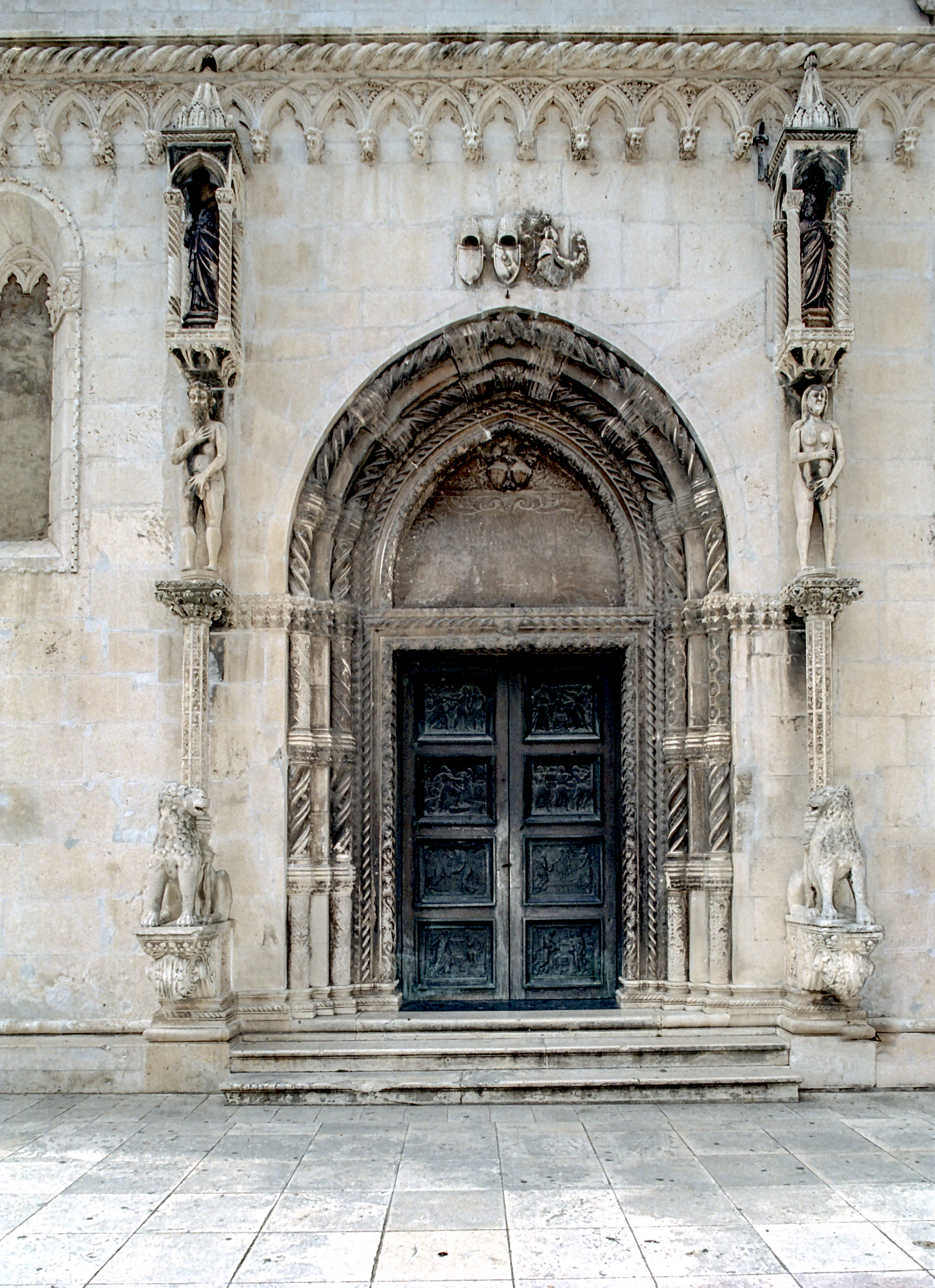 Cathedral of St. Jacob - side portal, Šibenik